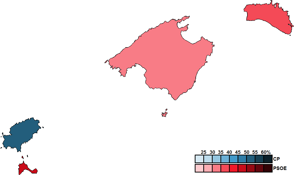 District results for the 1983 Balearic regional election.